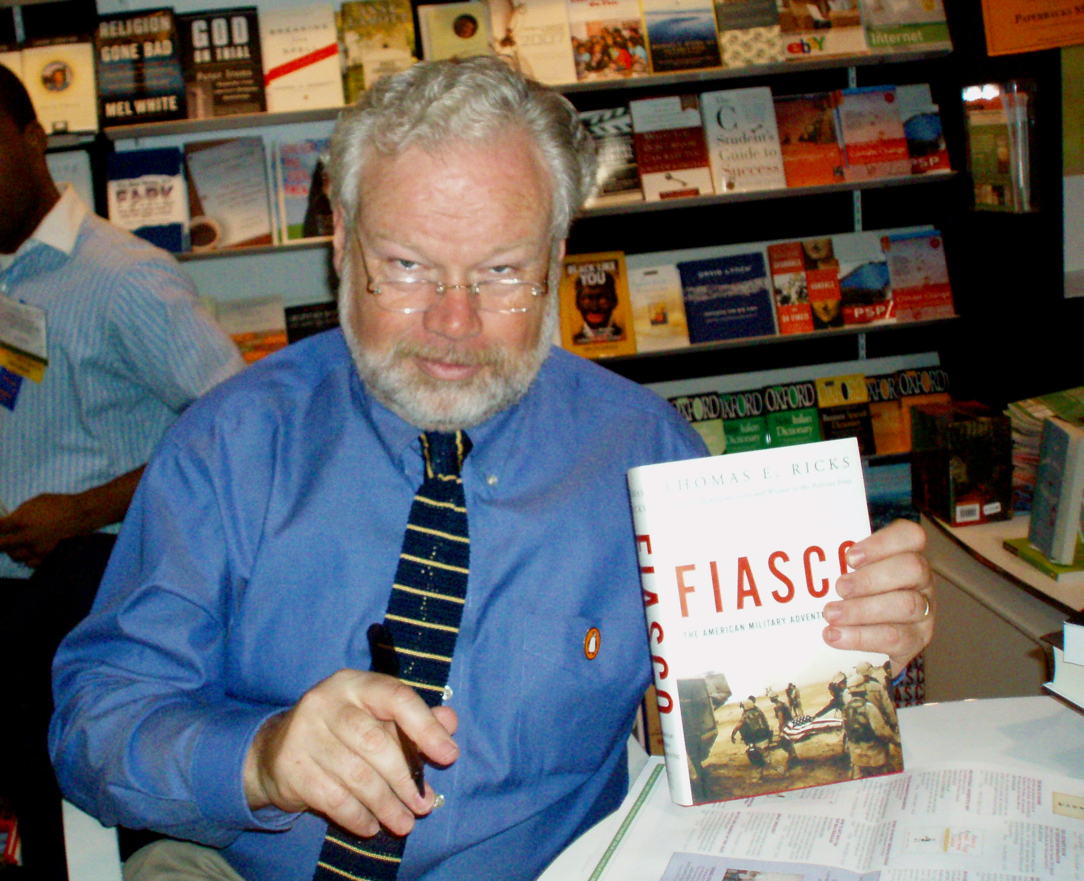 Thomas Ricks, author of Fiasco